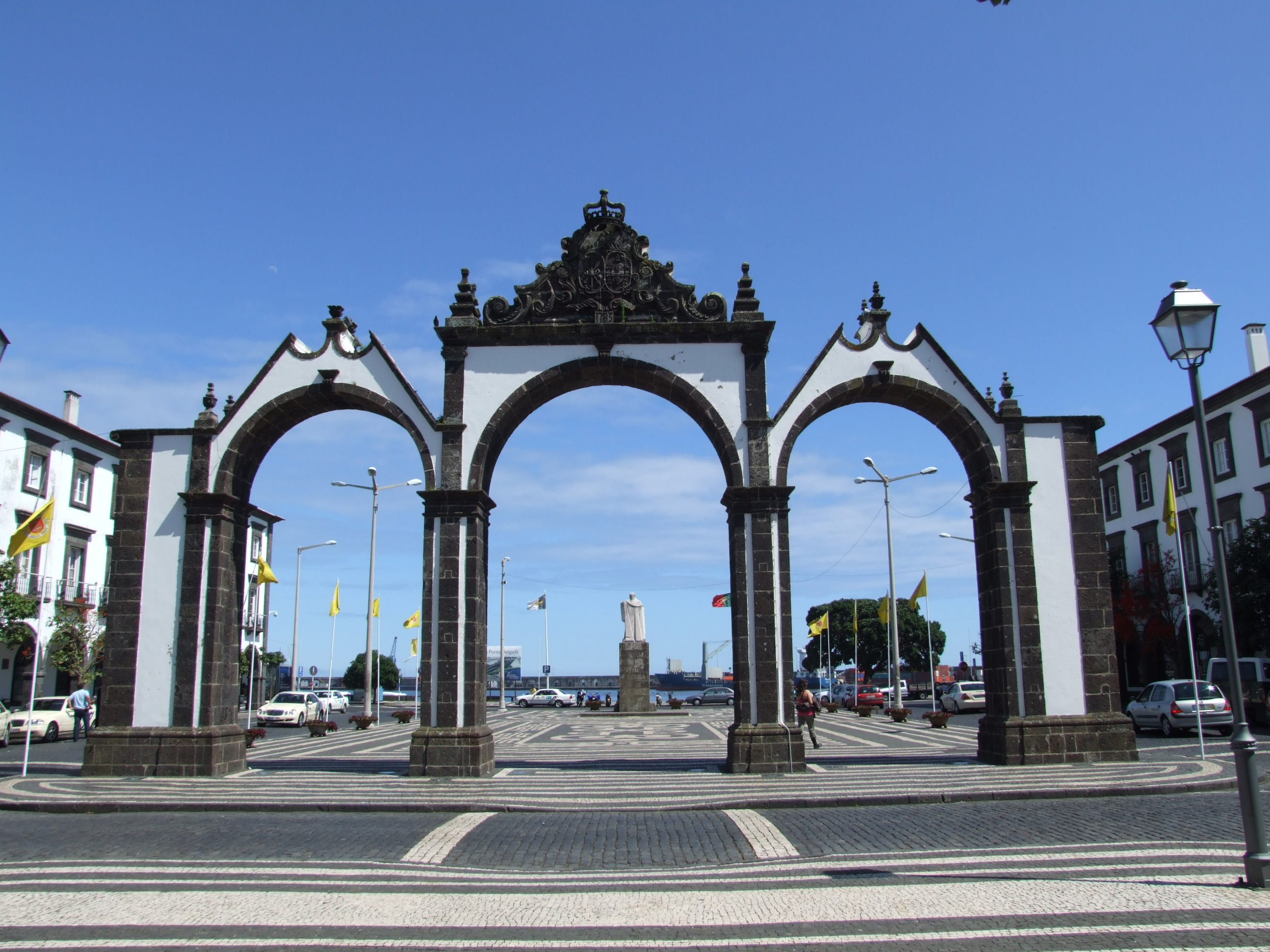 Ponta Delgada, Sao-Miguel, Azores, Portugal